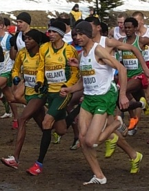 Gladwin Mzazi, Elroy Gelant, Rabah Aboud at the 2013 IAAF World Cross Country Championships